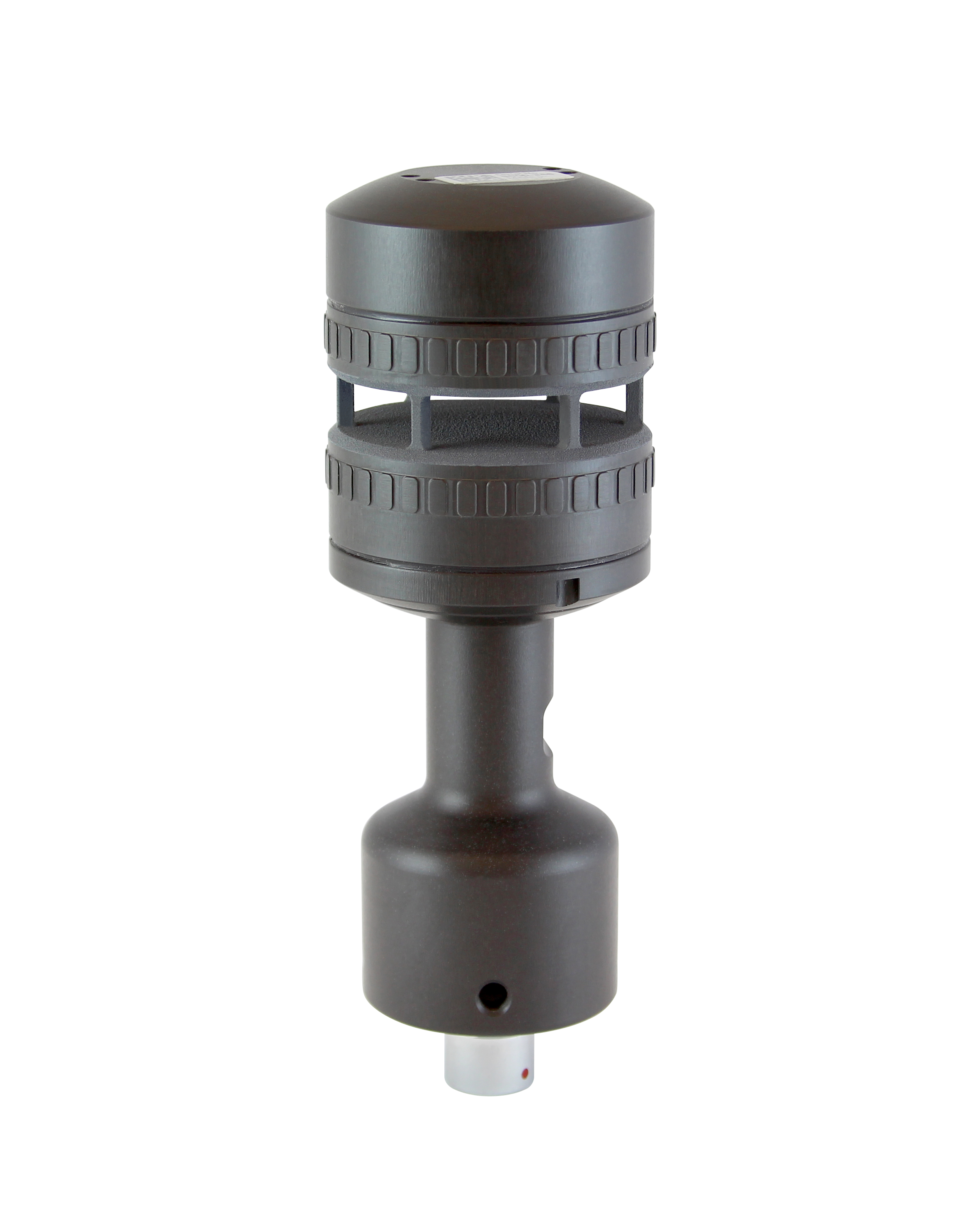 FT742-DM acoustic resonance wind sensor used to measure wind speed and direction